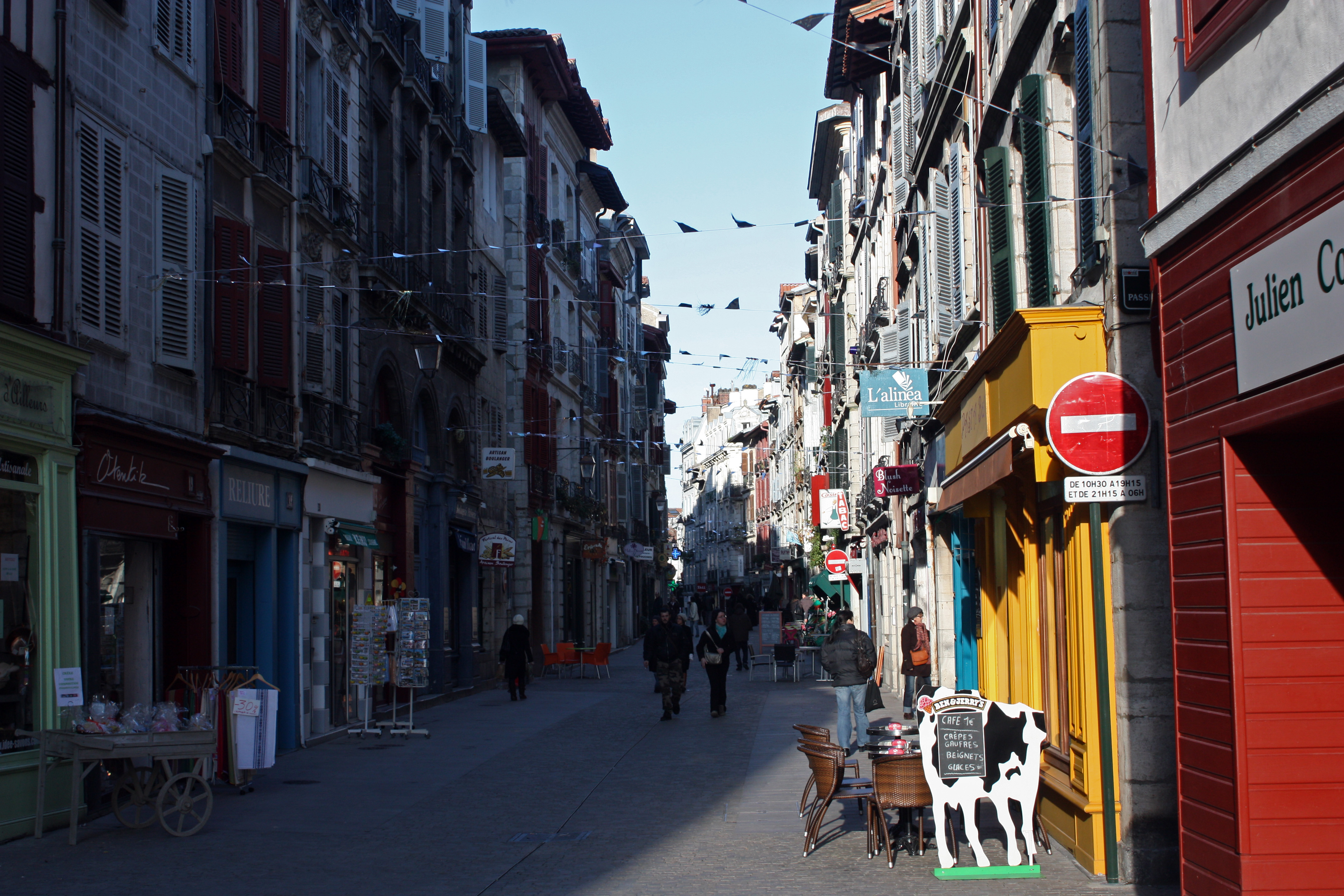 The street of Spain leading to the Door of Spain.